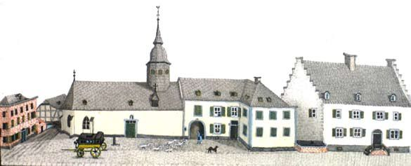 Ein Aquarell der ehemaligen Posthalterstation auf der Hauptstraße Nr. 69 in Bergheim